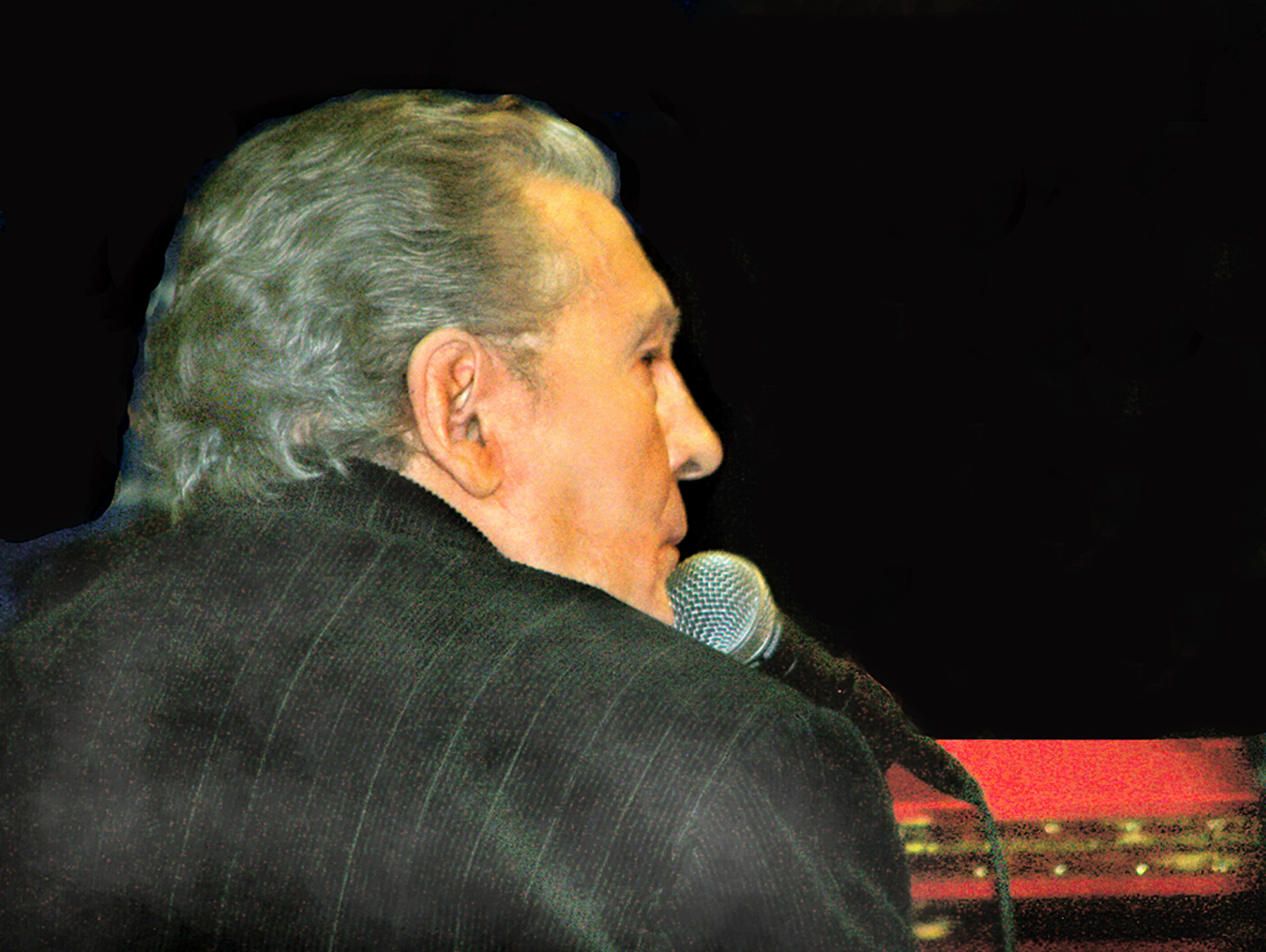 Jerry Lee Lewis photographed by Anthony Pepitone